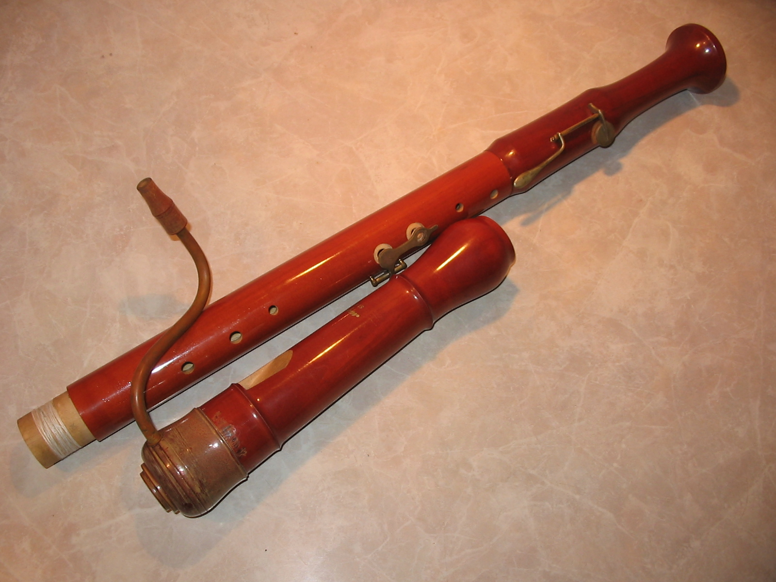 flute